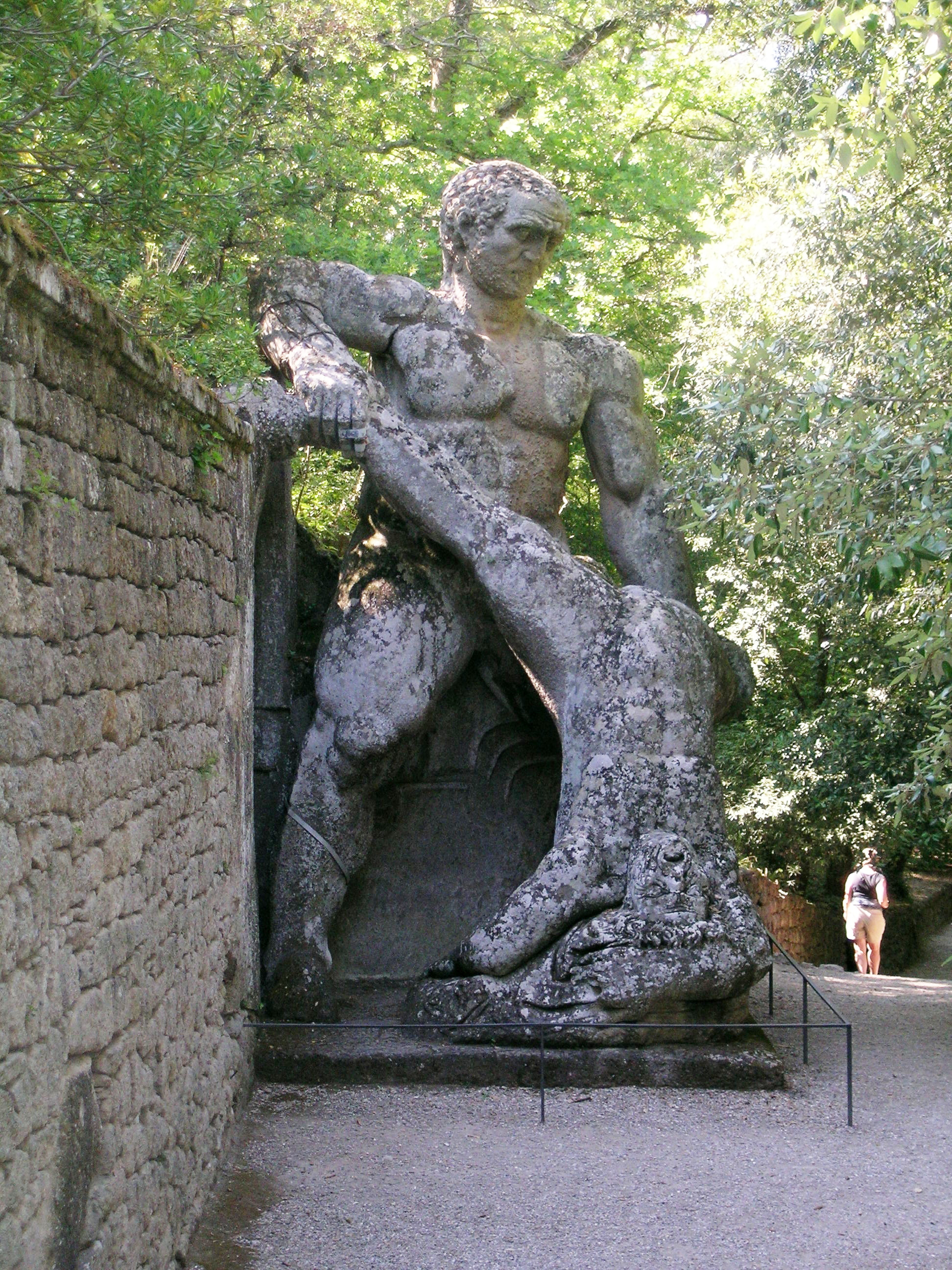 Hercules and Cacus in the park of monsters, close to Bomarzo (Italy)